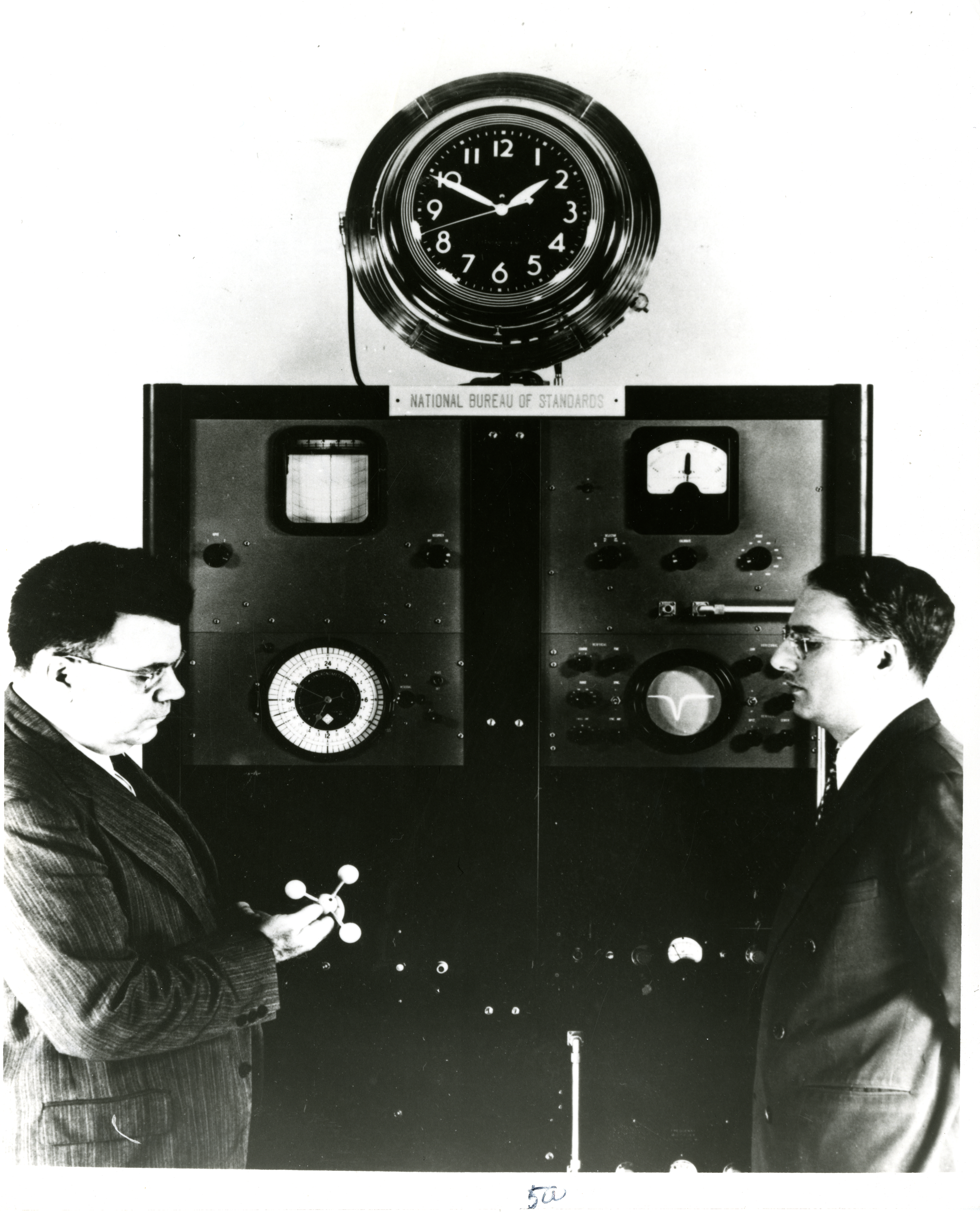 Ammonia molecule clock with Director E. U. Condon and Dr. Harold Lyons, 25th anniversary